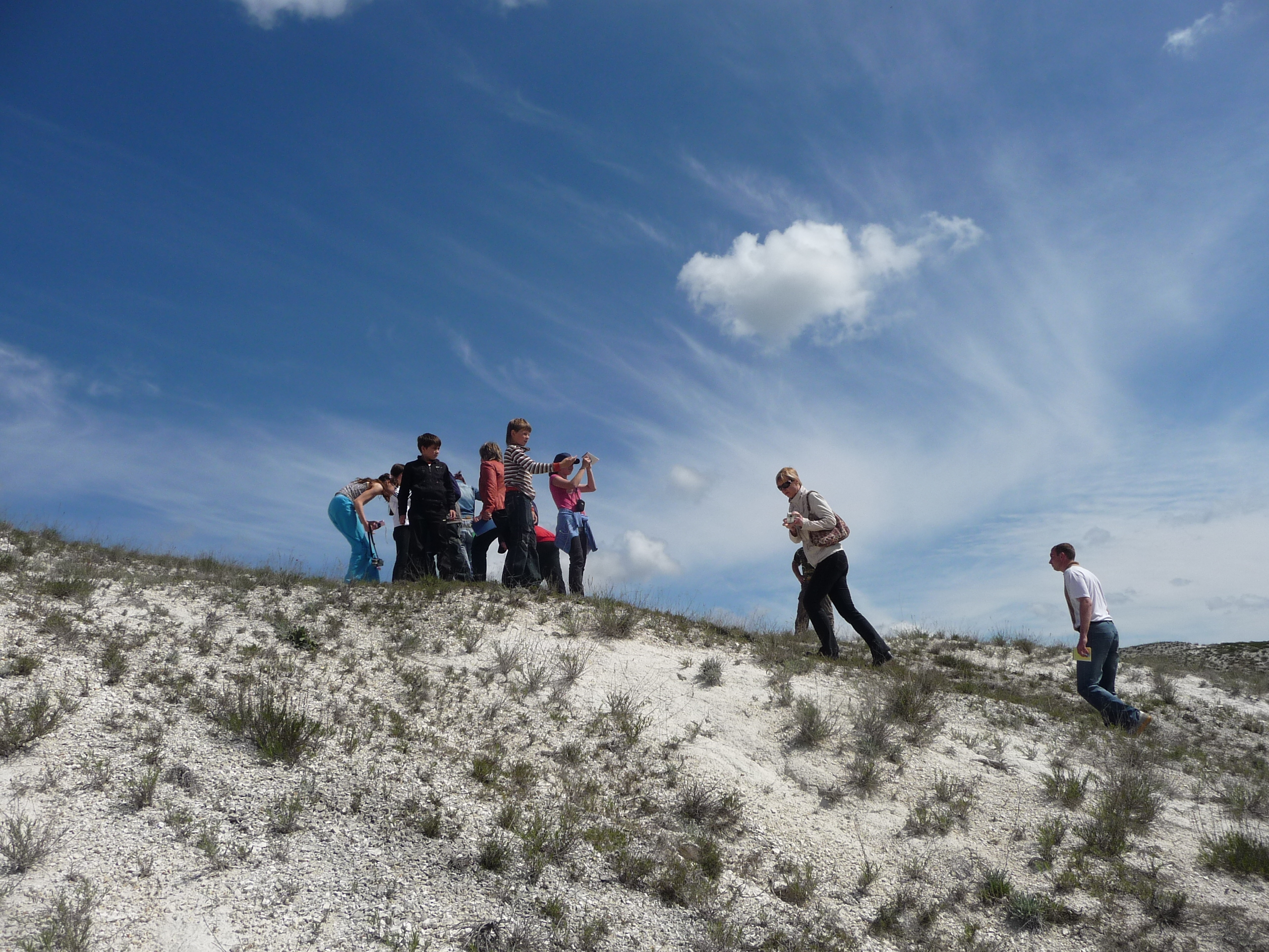 A tour of the chalk hills. Natural Park "Don", Ilovlinsky District, Volgograd Region.